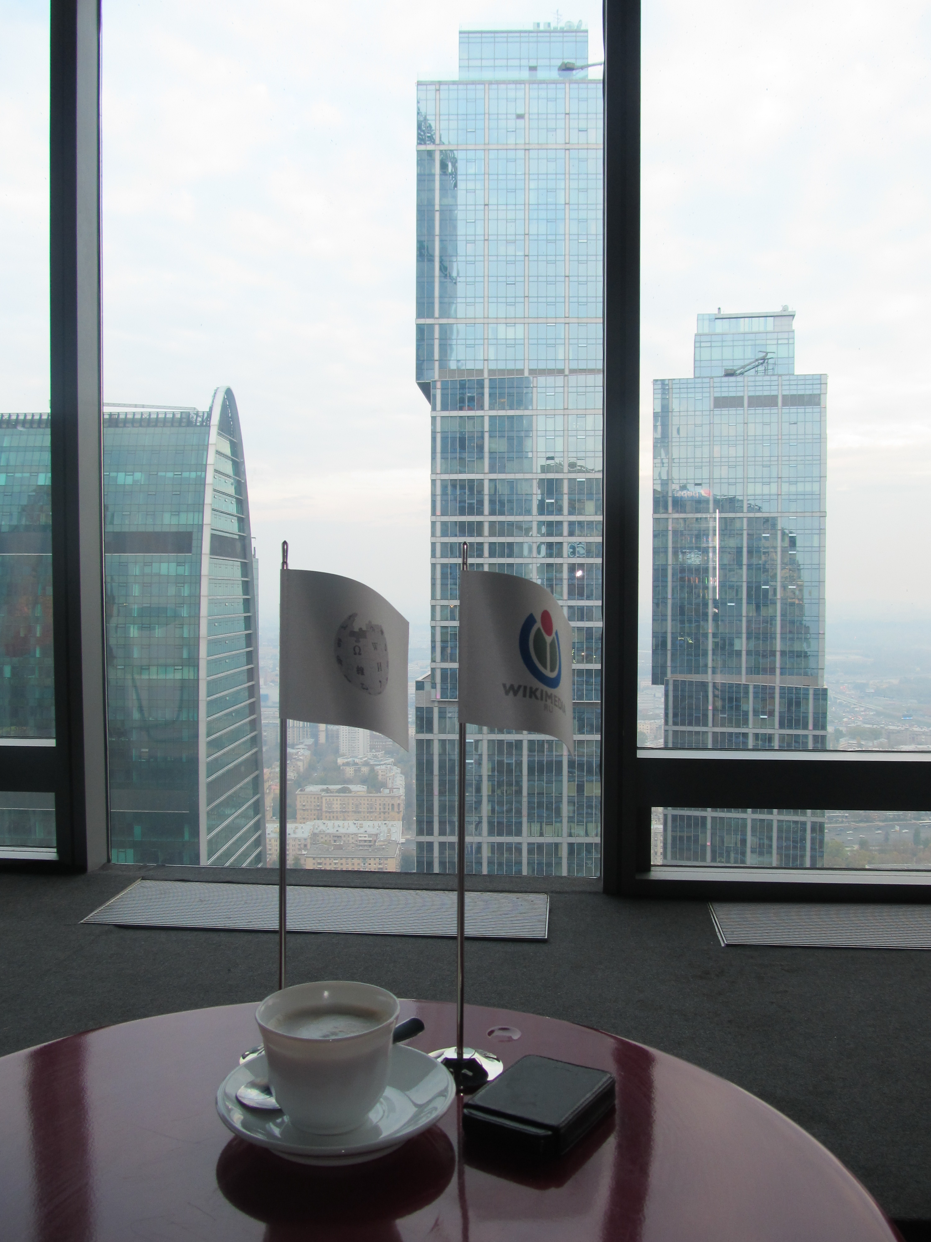 Wikimedia RU and Wikipedia Flags (54 floor Federation West Tower, Moscow City).